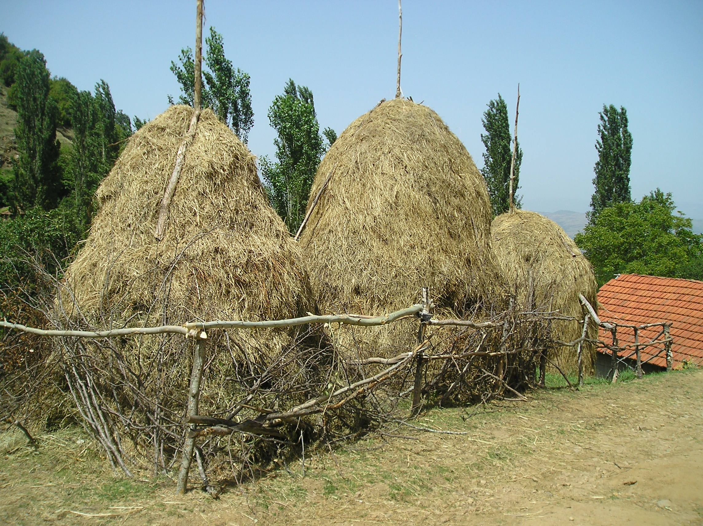 Haystacks in the village of Blatec, Vinica Municipality, Republic of Macedonia